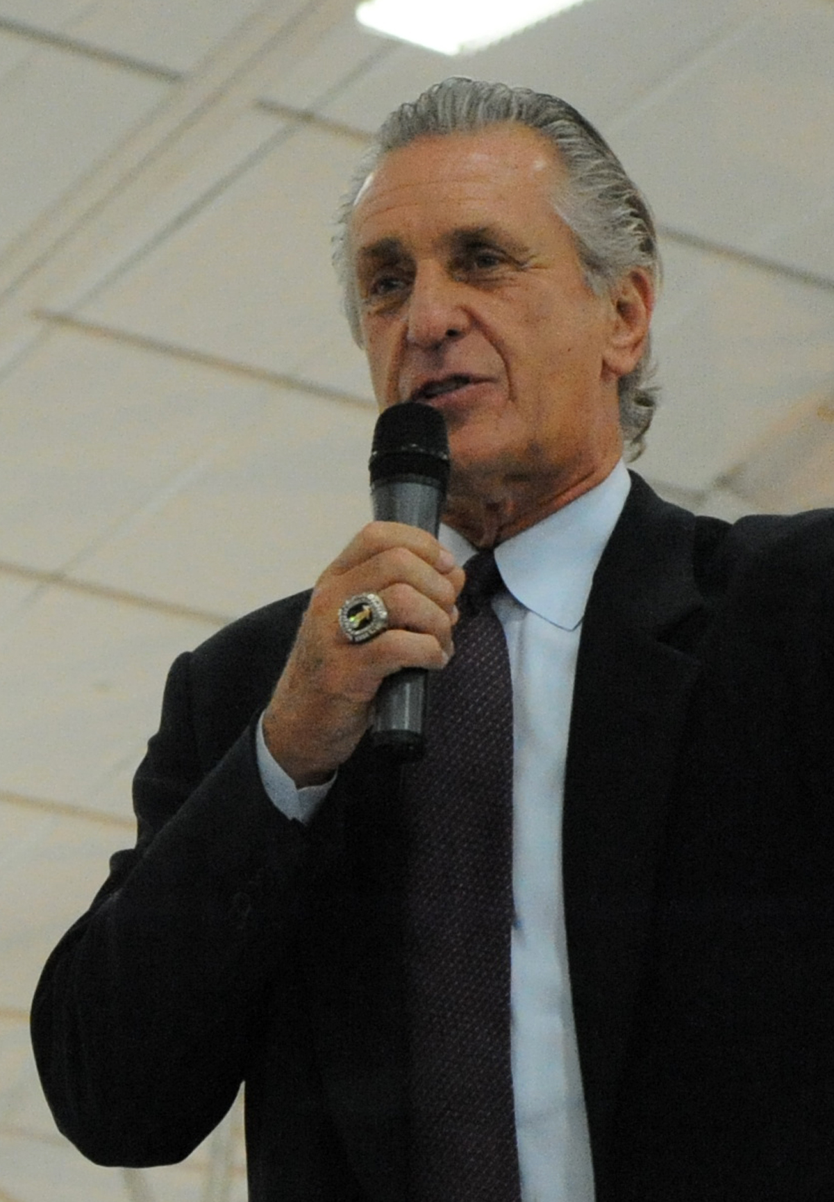 Pat Riley, the president of the Miami Heat National Basketball Association team, speaks during the team's arrival at Eglin Air Force Base, Fla., Sept. 27, 2010. Players with the team were conducting their 2010 training camp at Hurlburt Field, Fla., marking the first time in 23 years the team has taken their training camp on the road. (DoD photo by Airman 1st Class Caitlin O'Neil-McKeown, U.S. Air Force/Released)